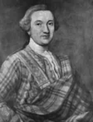 Posthumous portrait (1765) of Alexander Macdonald of Keppoch